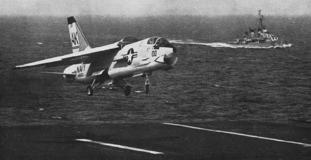 A Vought F8U-1 Crusader of fighter squadron VF-103 Sluggers landing on the U.S. aircraft carrier USS Forrestal (CVA-59) in 1958/59 (it is probably a touch-and-go landing, as no tailhook is visible). VF-103 was assigned to Carrier Air Group Ten (CVG-10) aboard the Forrestal for a deployment to the Mediterranean Sea from 2 September 1958 to 12 March 1959. The "OO"-number ("double nuts") on the Crusader indicates that this is the personal aircraft of the Commander Air Group (CAG). An Allen M. Sumner-class or Gearing-class destroyer is visible in the background.